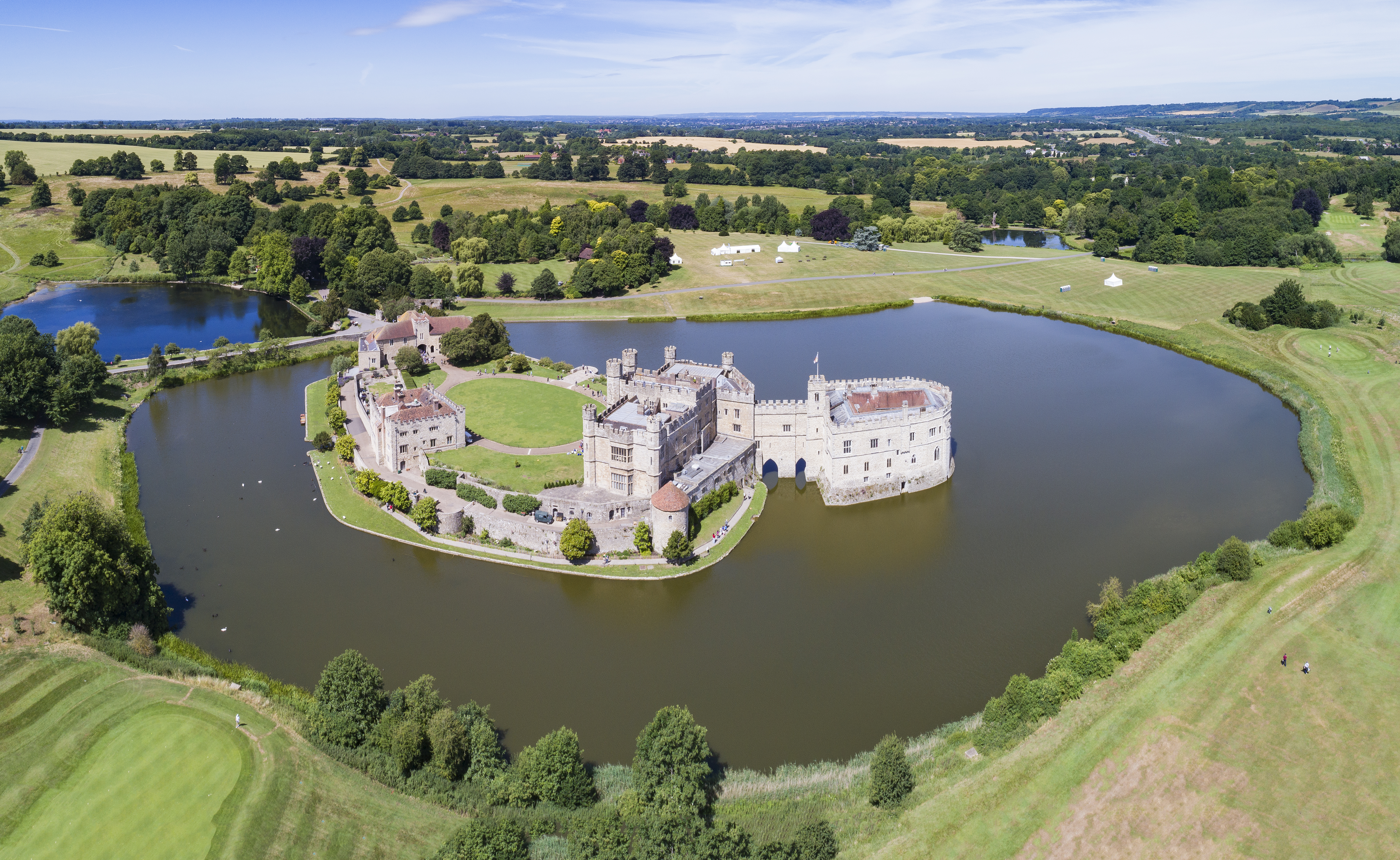 leeds castle panorama 2017